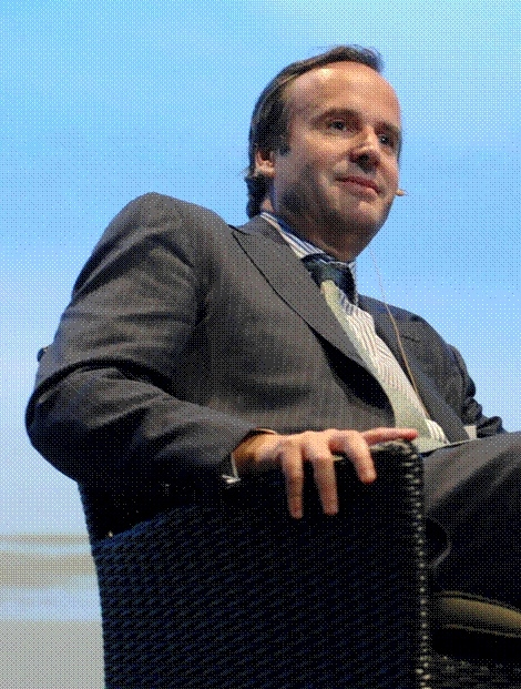 Thomas Leysen, Chairman and Non-Executive Director of Umicore during Friends of Europe's State of Europe VIP roundtable and President's Dinner